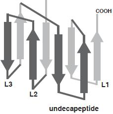 Ribbon structure of Domain 4 of perfringolysin O with labeled Loops 1-3 and Undecapeptide region